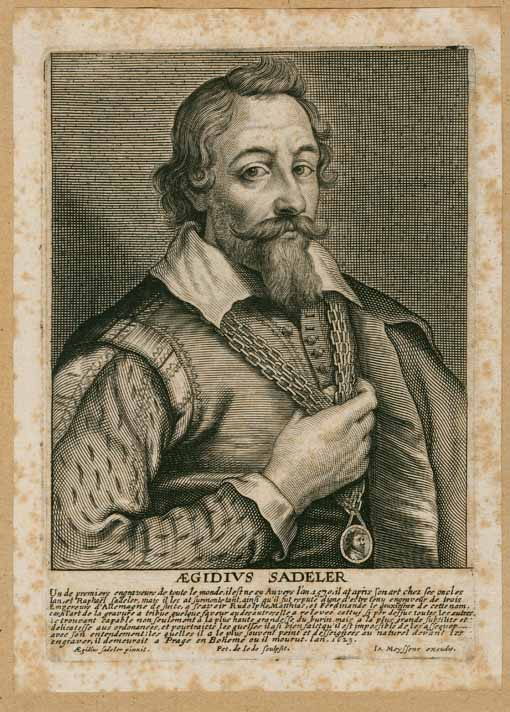 The painter and engraver Egidius Sadeler (um 1570-1629)